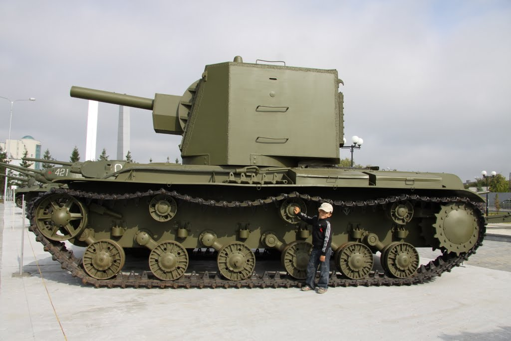 Verkhnyaya Pyshma Tank Museum 2011